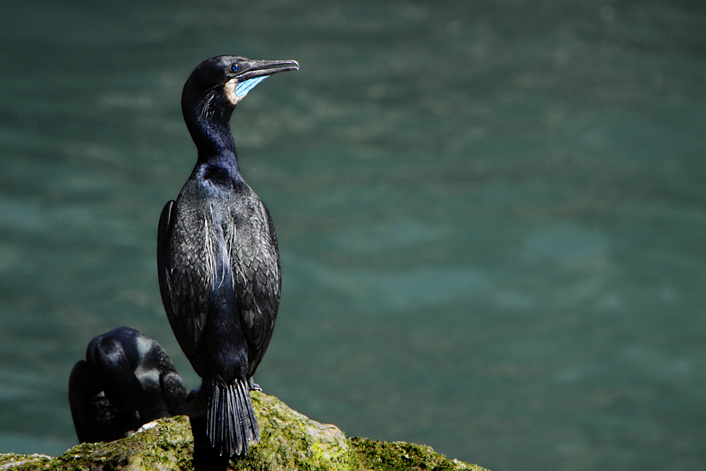 Brandt's Cormorant Phalacrocorax penicillatus in full breeding plumage with blue throat patch. Monterey Bay, California.